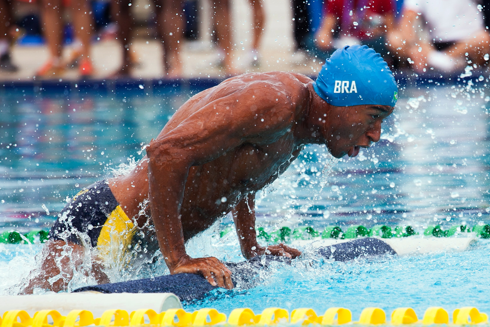 60th World Military Pentathlon Championship: obstacle swimming. Rio de Janeiro - RJ. Photo: Felipe Barra